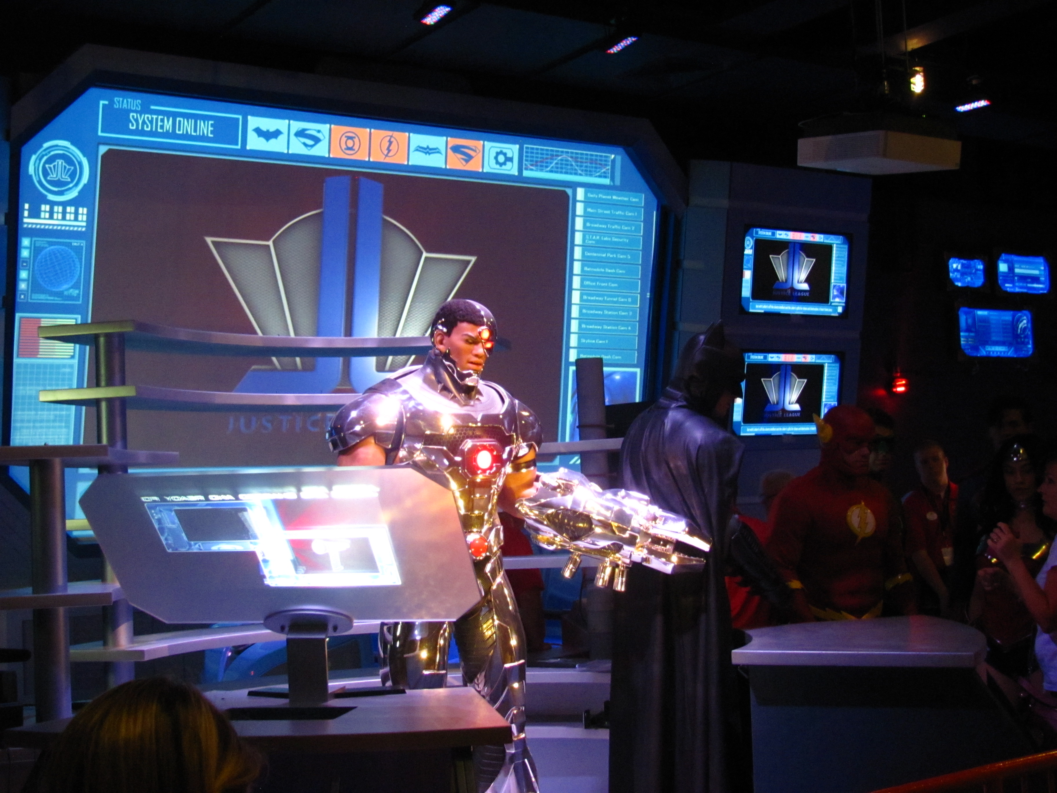 Cyborg in Justice League Battle For Metropolis at Six Flags St. Louis